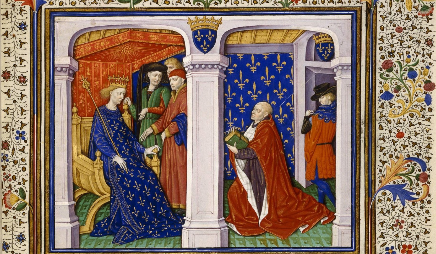 Jean Corbechon, show his translation of the "Livre des Propriétés des choses", to the King Charles V.